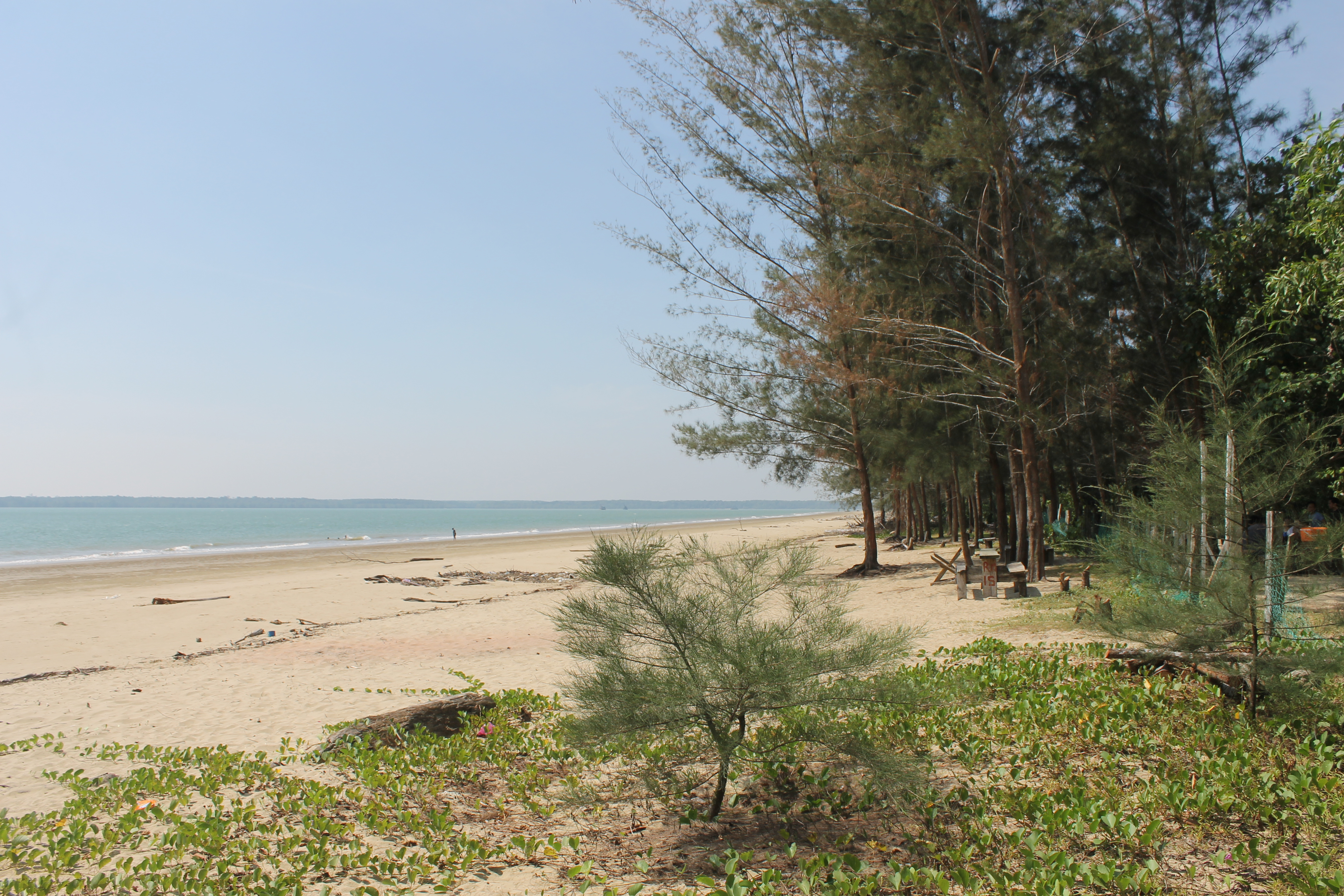 Belawai beach near Iftitah restaurant